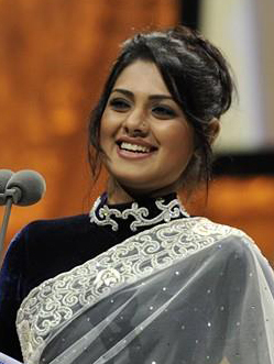 7th Annual Asia Pacific Screen Awards (APSA) 2013 Winner